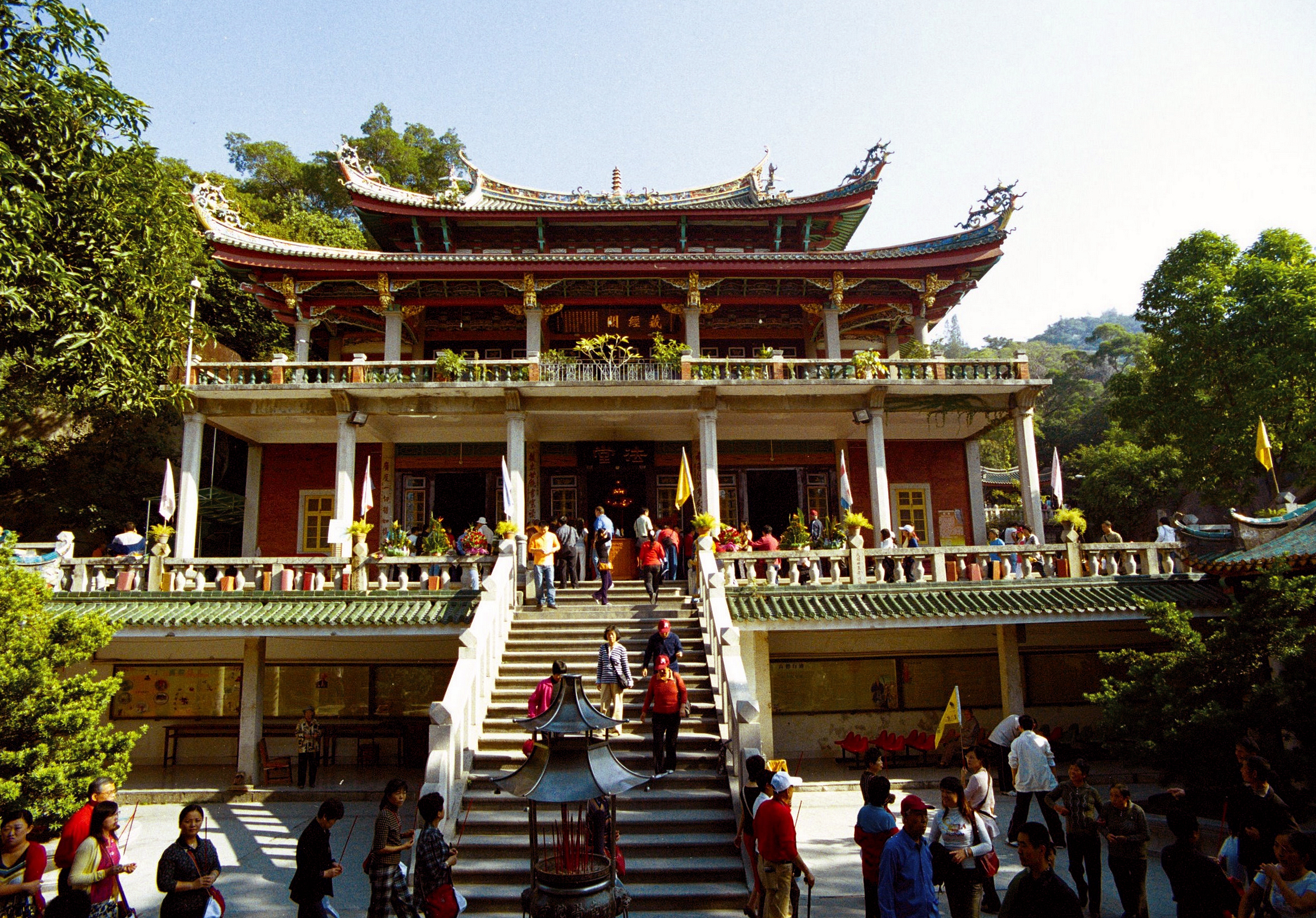 Buddhism library, Nanputuo temple南普陀寺藏经阁